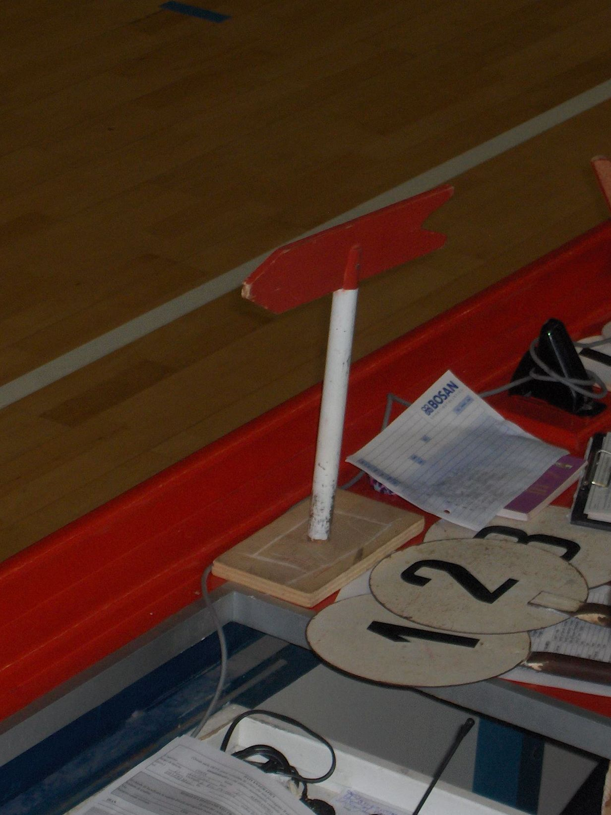 Possession arrow in Florence, Italy